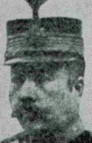 General Kusunose Yukihiko (1858-1927)